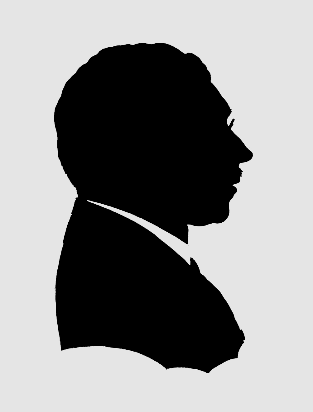 E. I. Narbut (1886-1920). Siluette portrait of artist D. I. Mitrohin. 1914